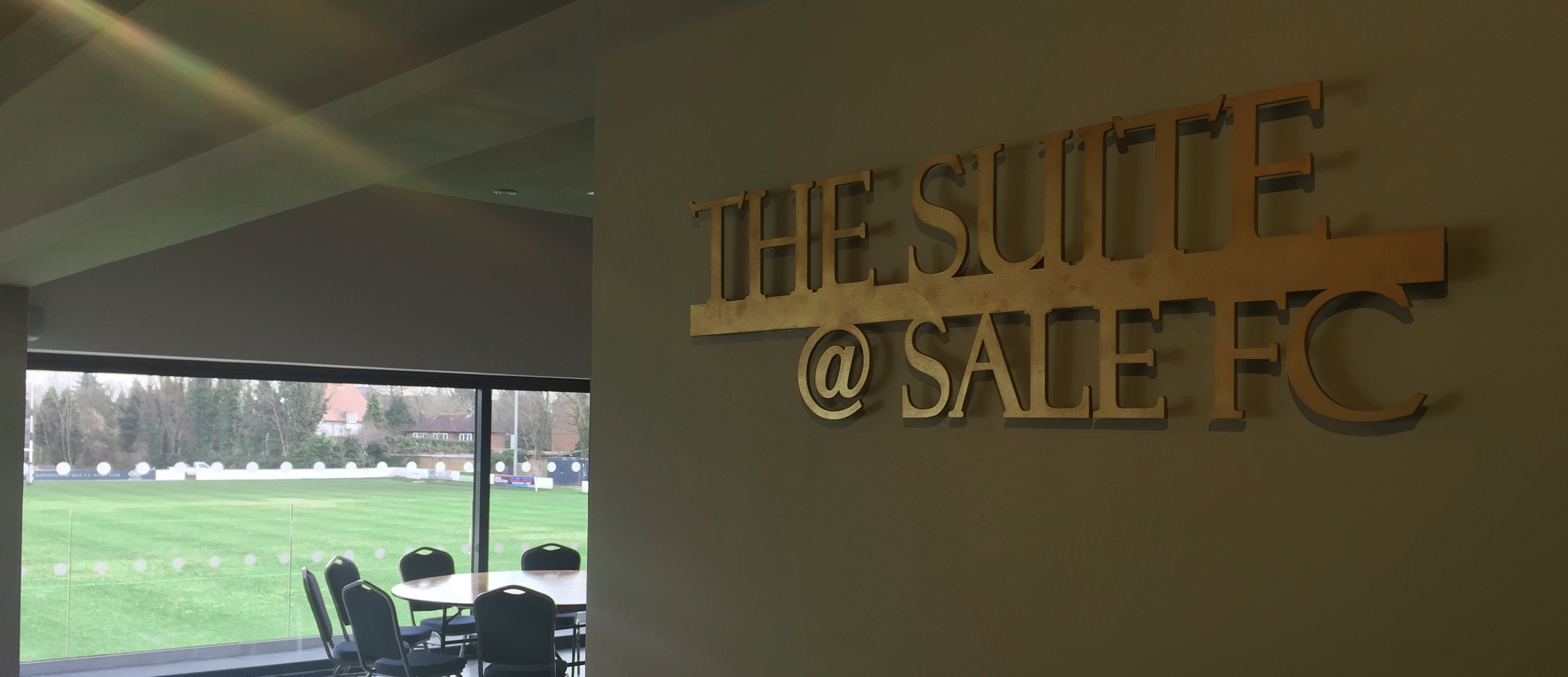 The Suite @Sale overlooks the Rugby Pitch with a full length balcony.